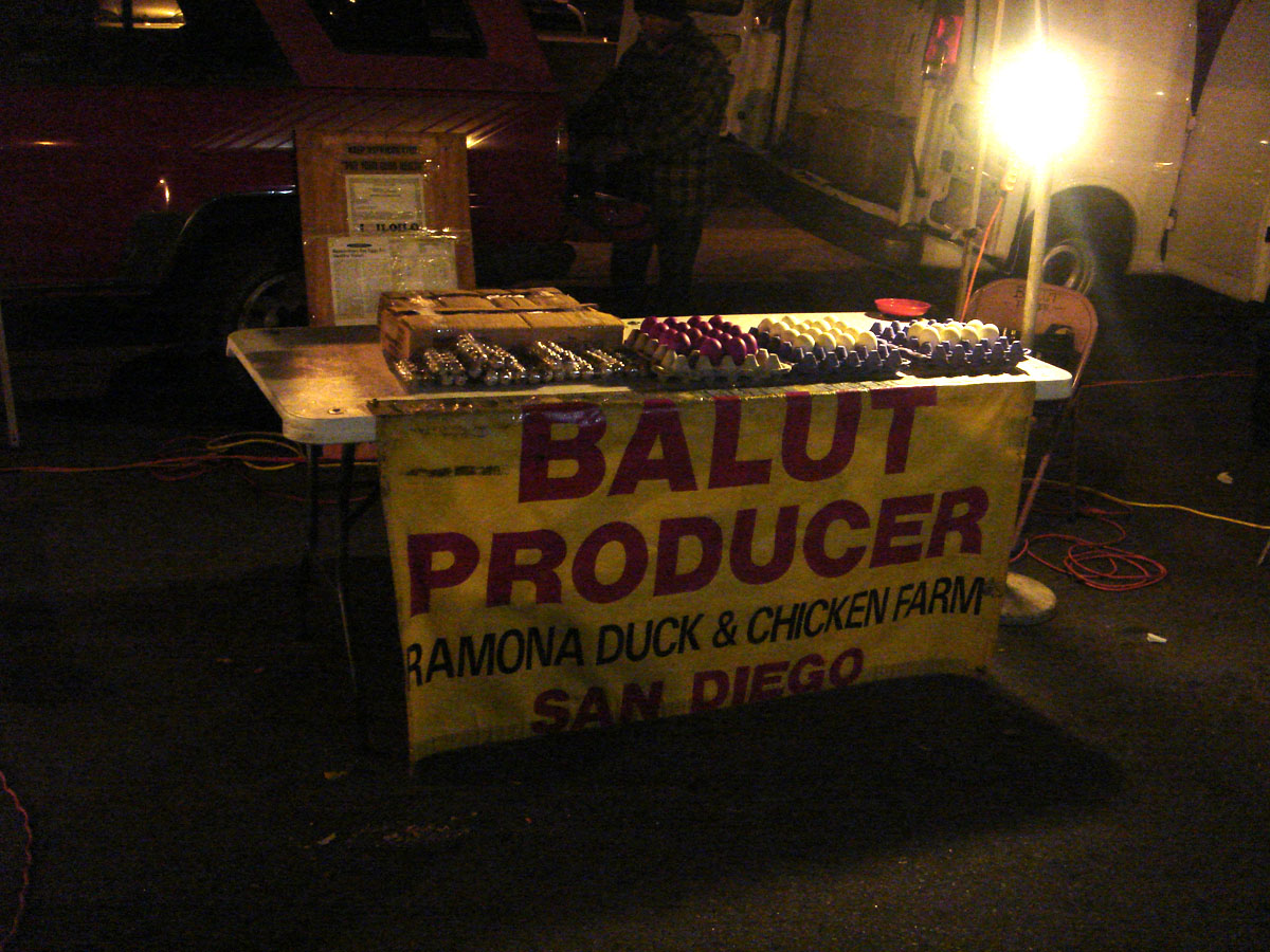 Also again, there was a (mainly ethnic) Farmer's Market in E Rock. I didn't expect to see balut, though. This is Cambodian version, I think, rather than Filipino.